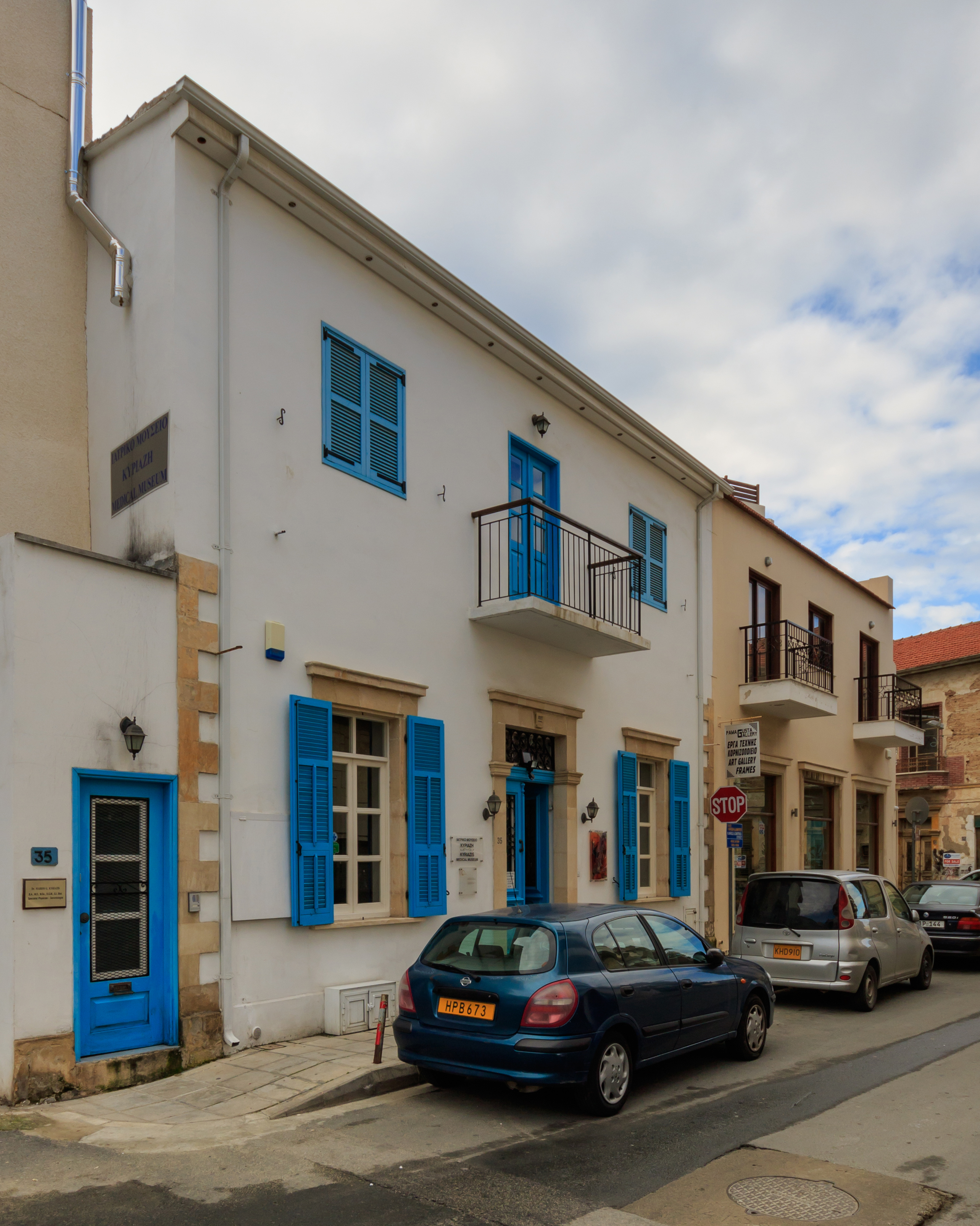 Building of Kyriazis Medical Museum in Larnaca, Cyprus